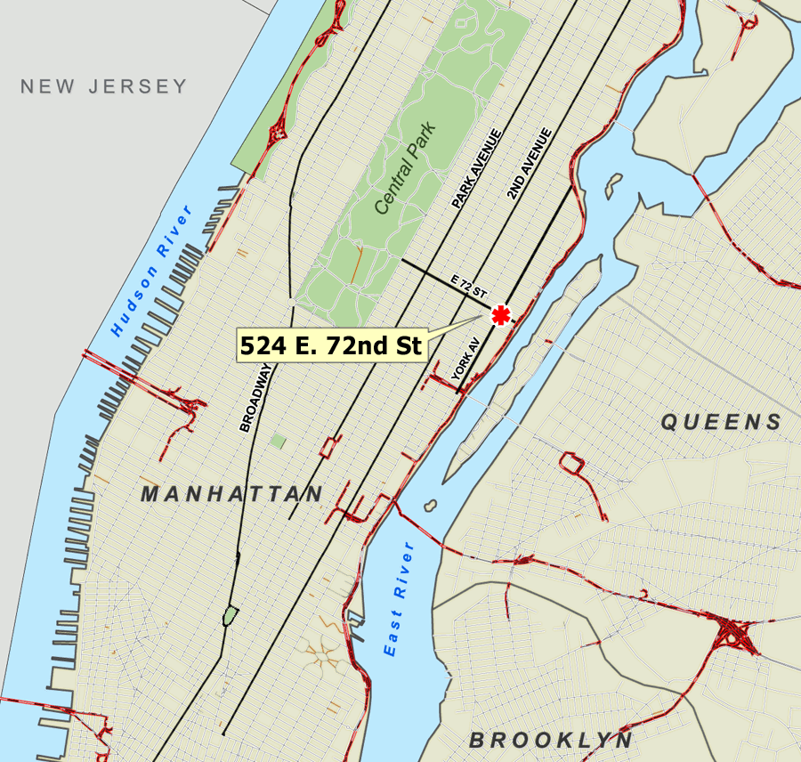 Locator map of NYC October 11, 2006 plane crash.